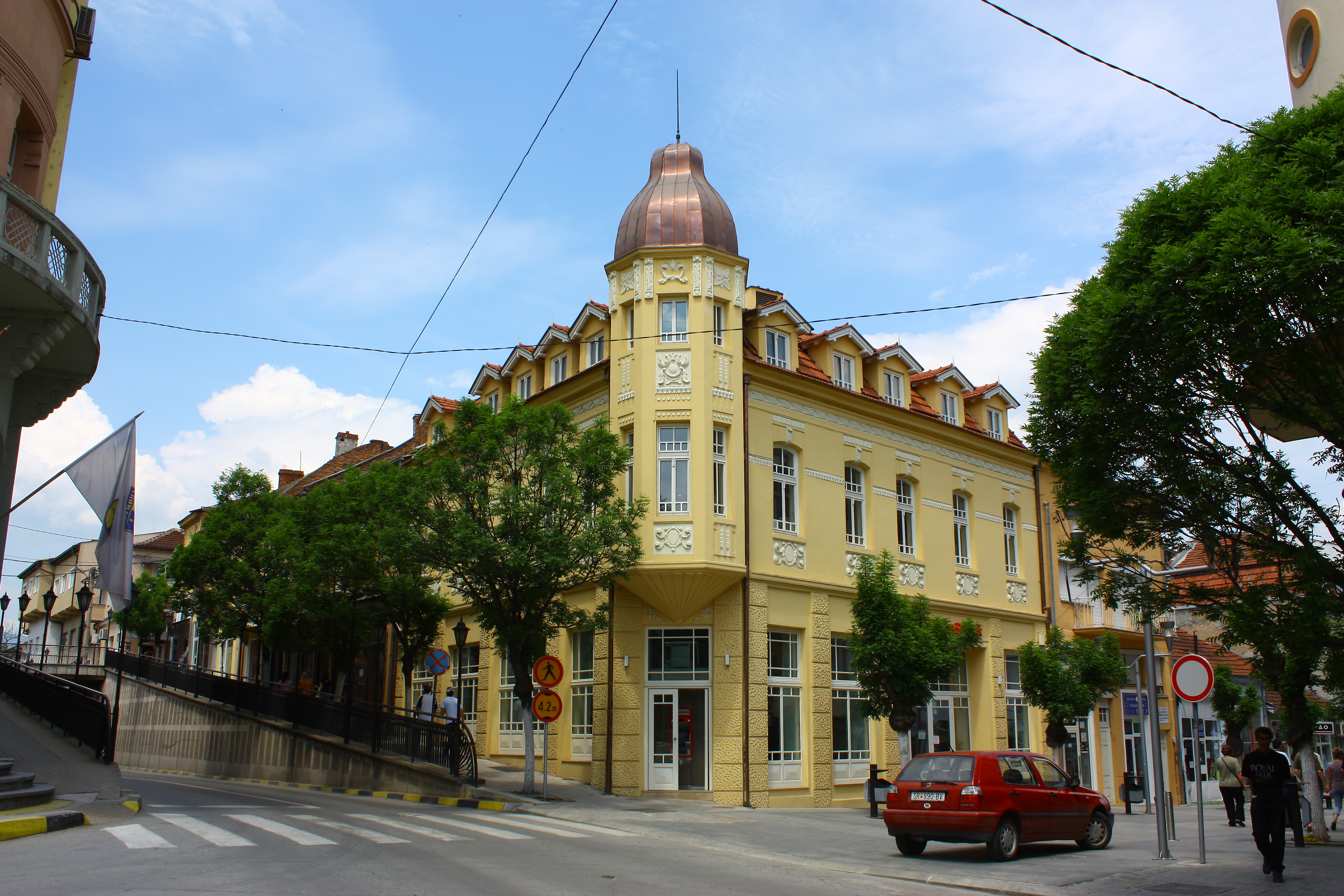 Strumica, Macedonia